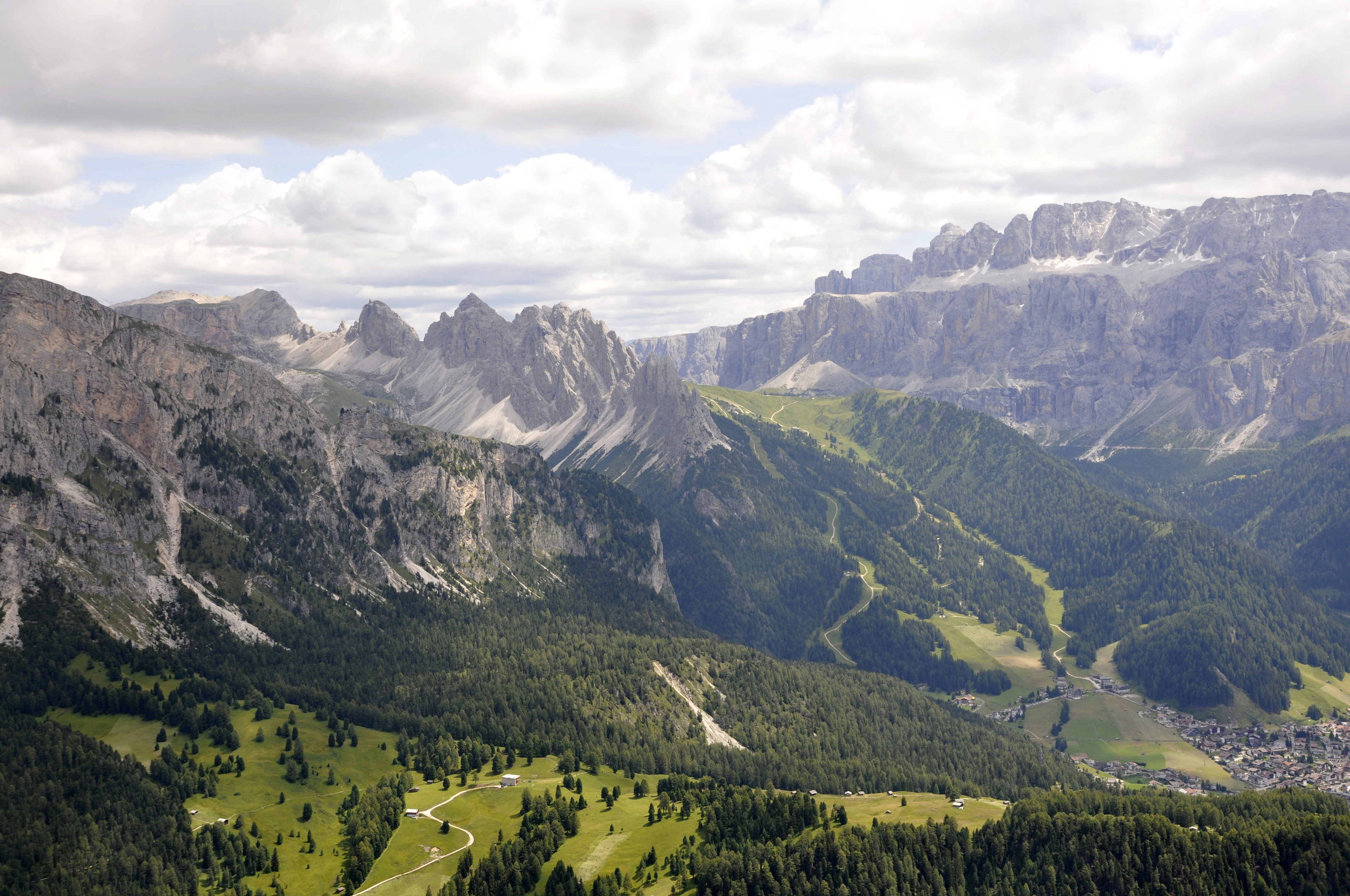 The Cir and Sella mountain groups